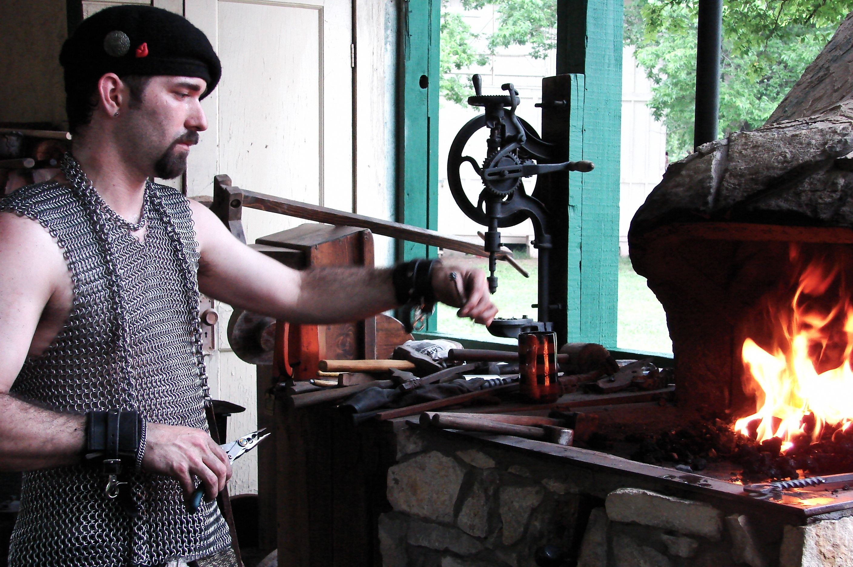 Blacksmith (Alan M. Bedgood) at Scarborough Faire (Waxahachie, Texas)